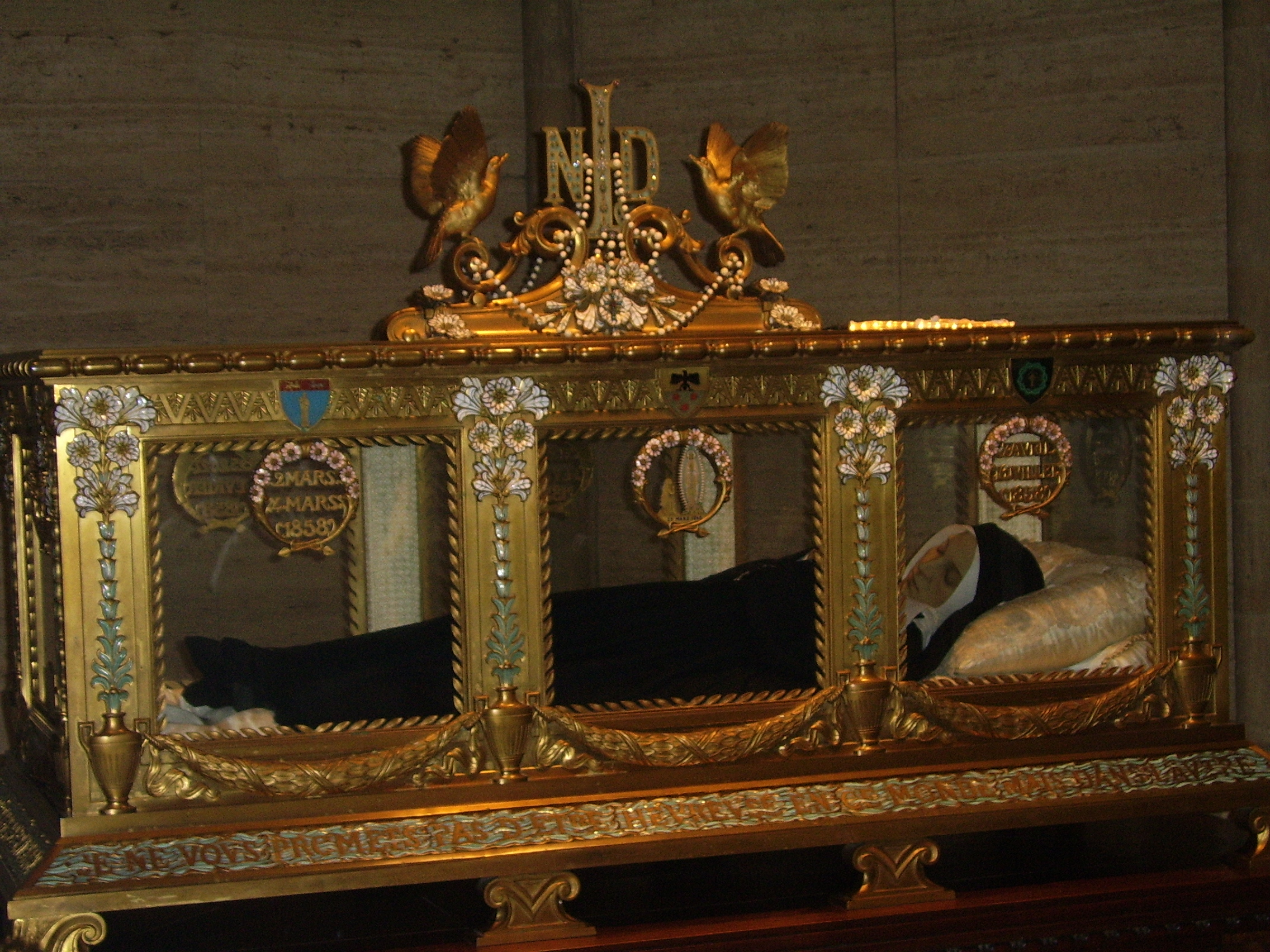 Bernadette Soubirous - sarcophagus in Nevers.